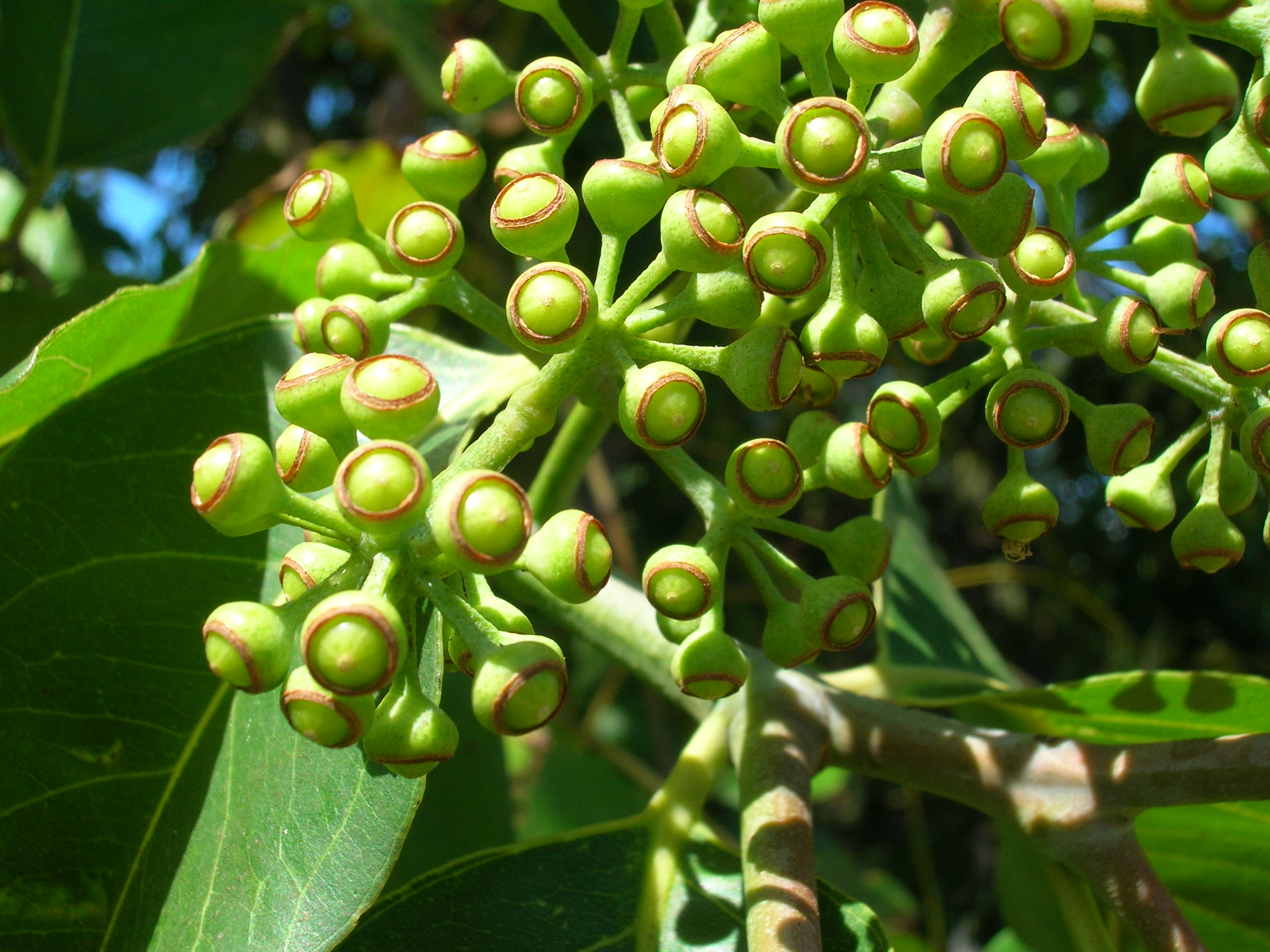 Eucalyptus deglupta (capsules forming). Location: Maui, Kahului Community Center